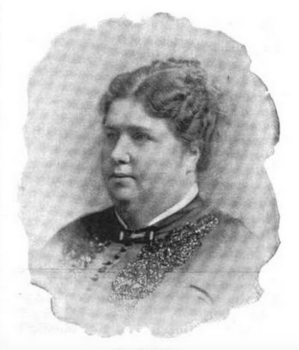 Born: February 25, 1848, Newcastle upon Tyne, England. Husband: Samuel L. Beiler